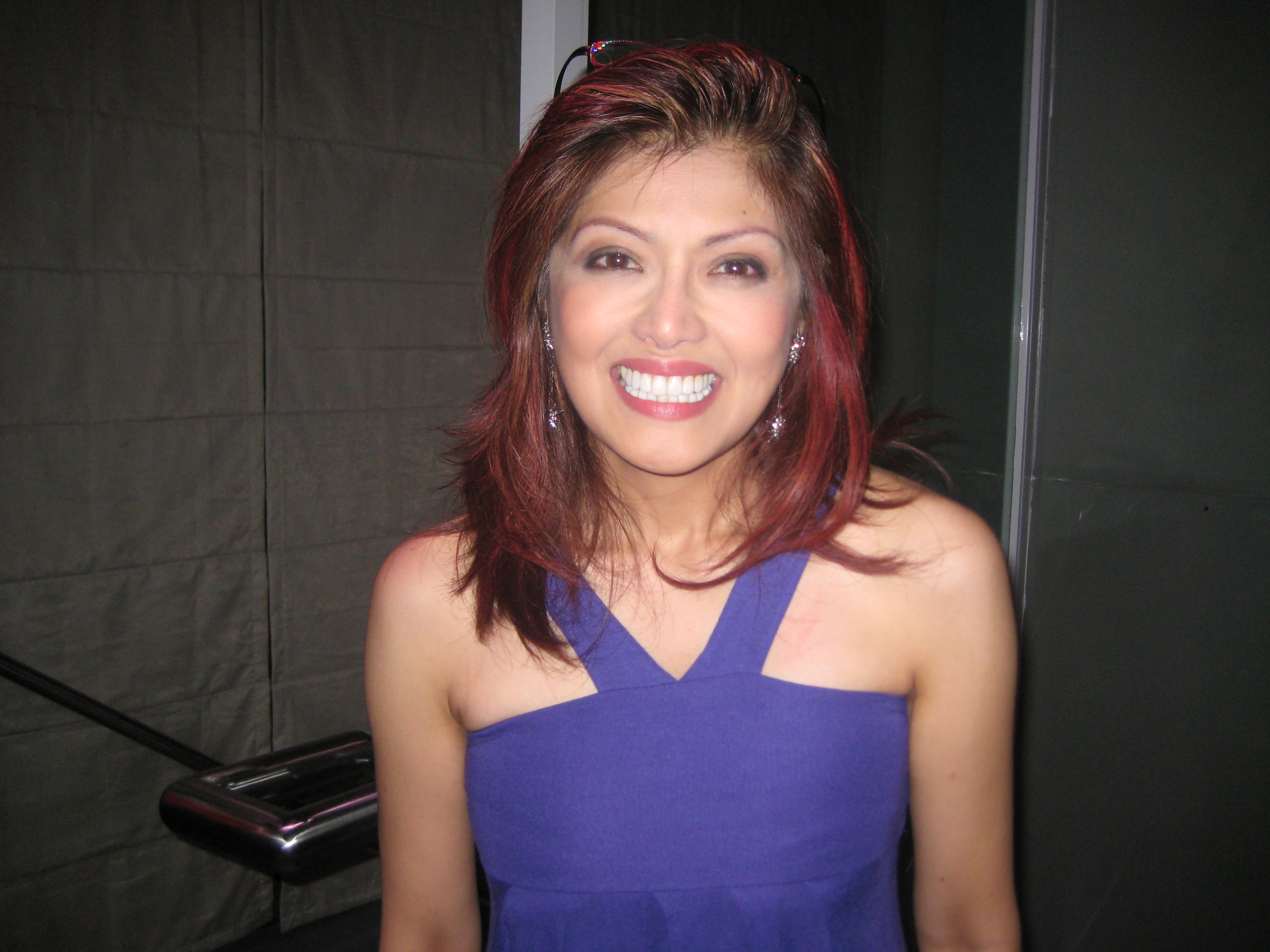 Imee Marcos I had the pleasure to interview Imee Marcos, of the Marocs family, about her new initiative to promote Filipino arts: the Creative Media and Film Society of the Philippines. CreaM, for short.